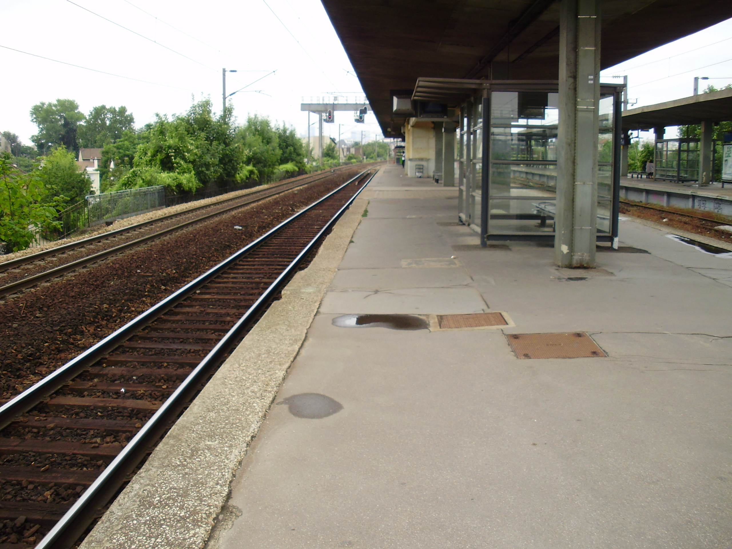 Le Stade station, in Colombes, Hauts-de-Seine, France (platform to Paris)